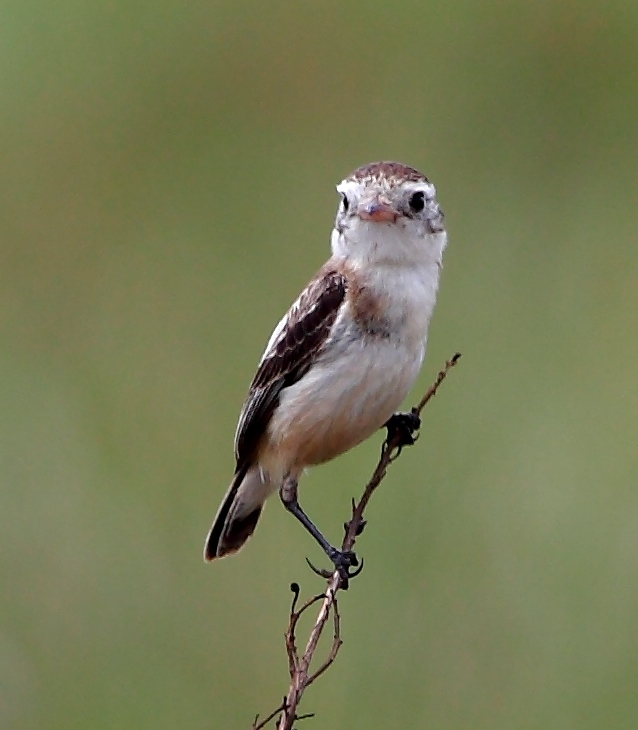 Cock-tailed tyrant (female) at Serra da Canastra National Park, MG, Brazil